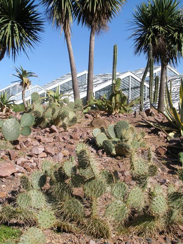 Opuntia humifusa in Kew Gardens, England.